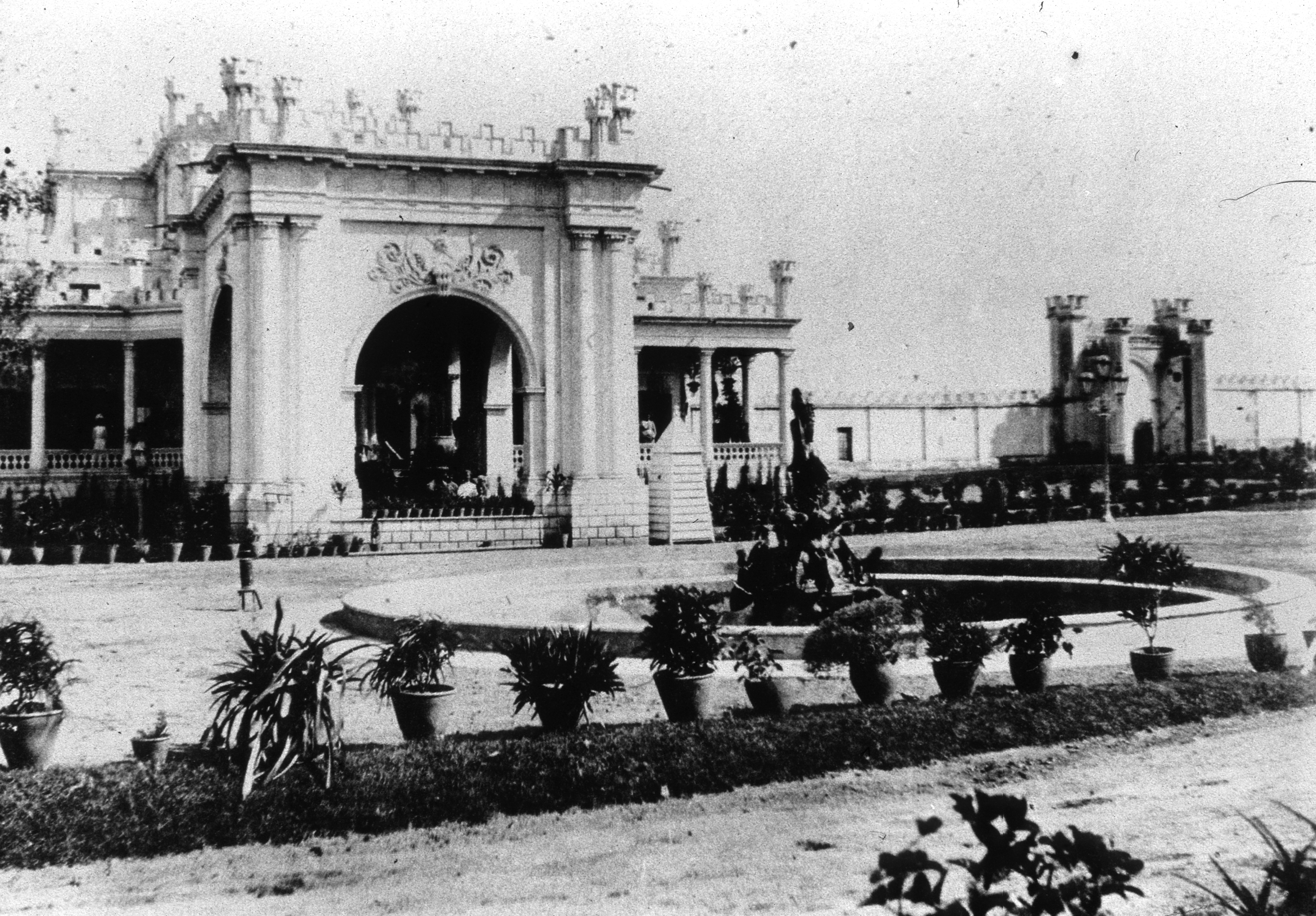 View of Saroornagar Palace from North side, year 1900